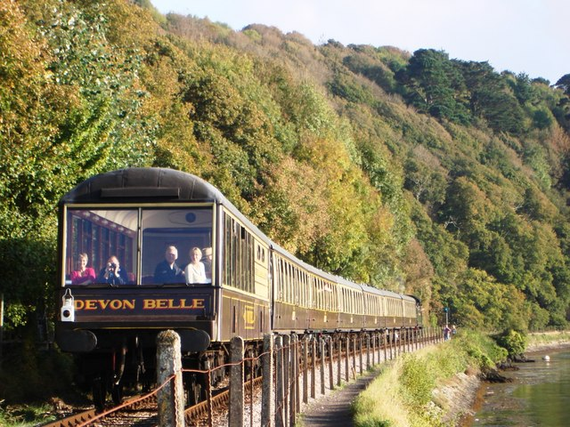 Devon Belle Steam Train approaching Kingswear Station